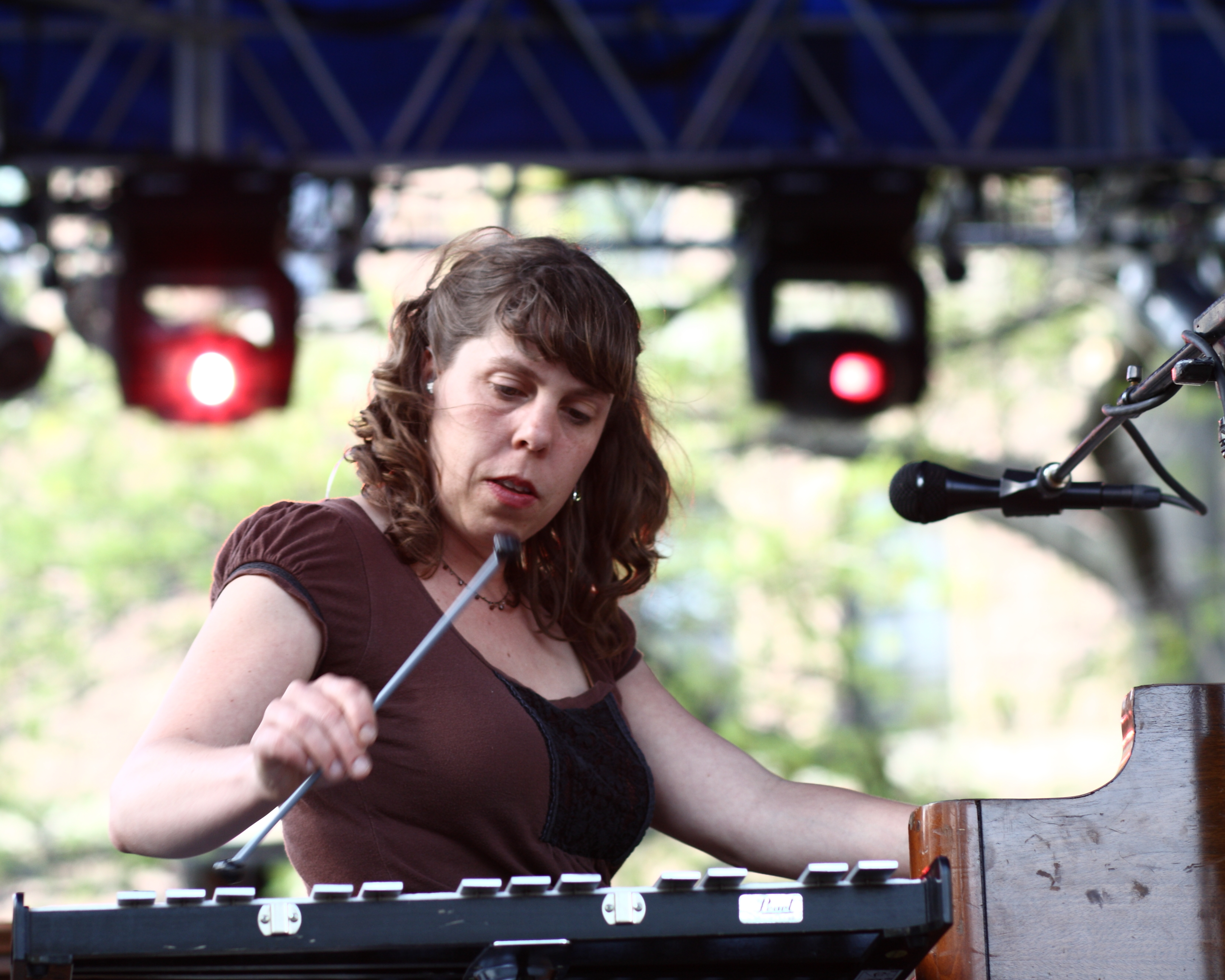 The Decmeberists performing at the Yale University "Spring Fling" on 28 April 2009, on Yale's Old Campus. Part of a larger set on Flickr: The Decemberists, 28 April 2009